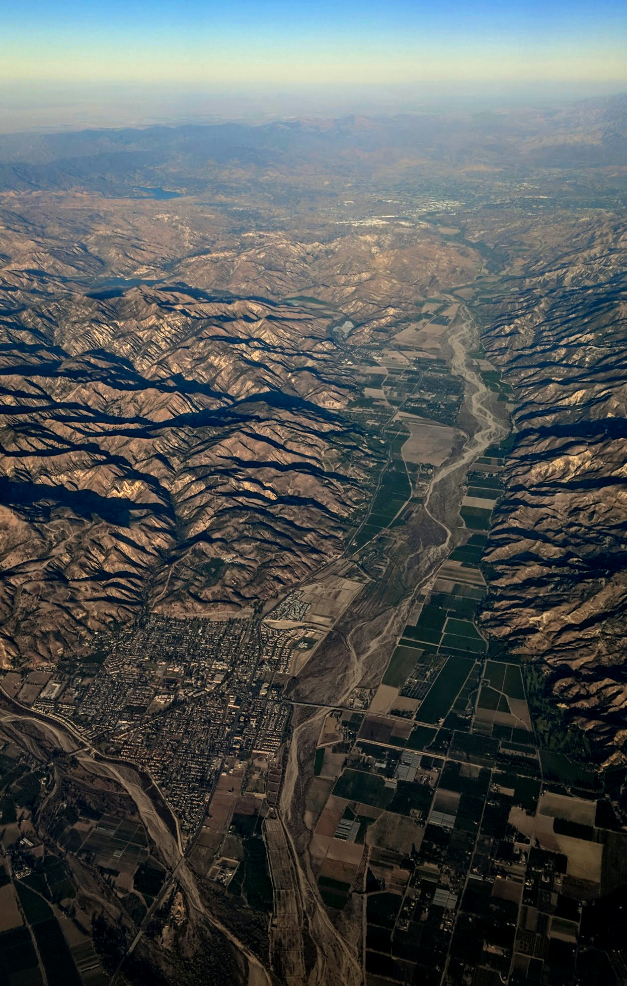 Late afternoon aerial view of Fillmore (left foreground) and the Santa Clara River Valley, California, with the Castaic Junction area barely visible at the far end of the valley.